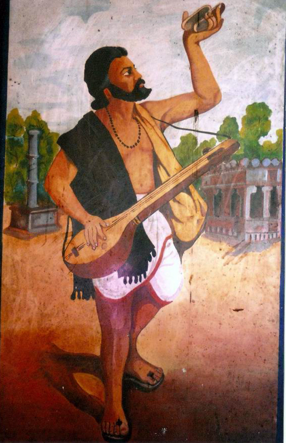 Picture of the Kannada Poet Kanaka Dasa, who lived in the 16th Century